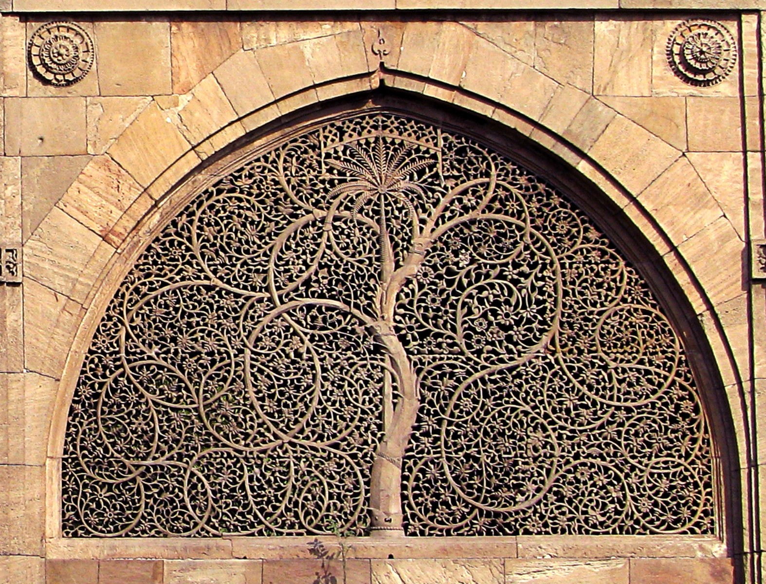 Sidi Saiyadni Jali is a symbol of Ahmedabad. It is in Lal Darwaja area. Its intrinsic carvings depict tree with artistic branches and leaves.